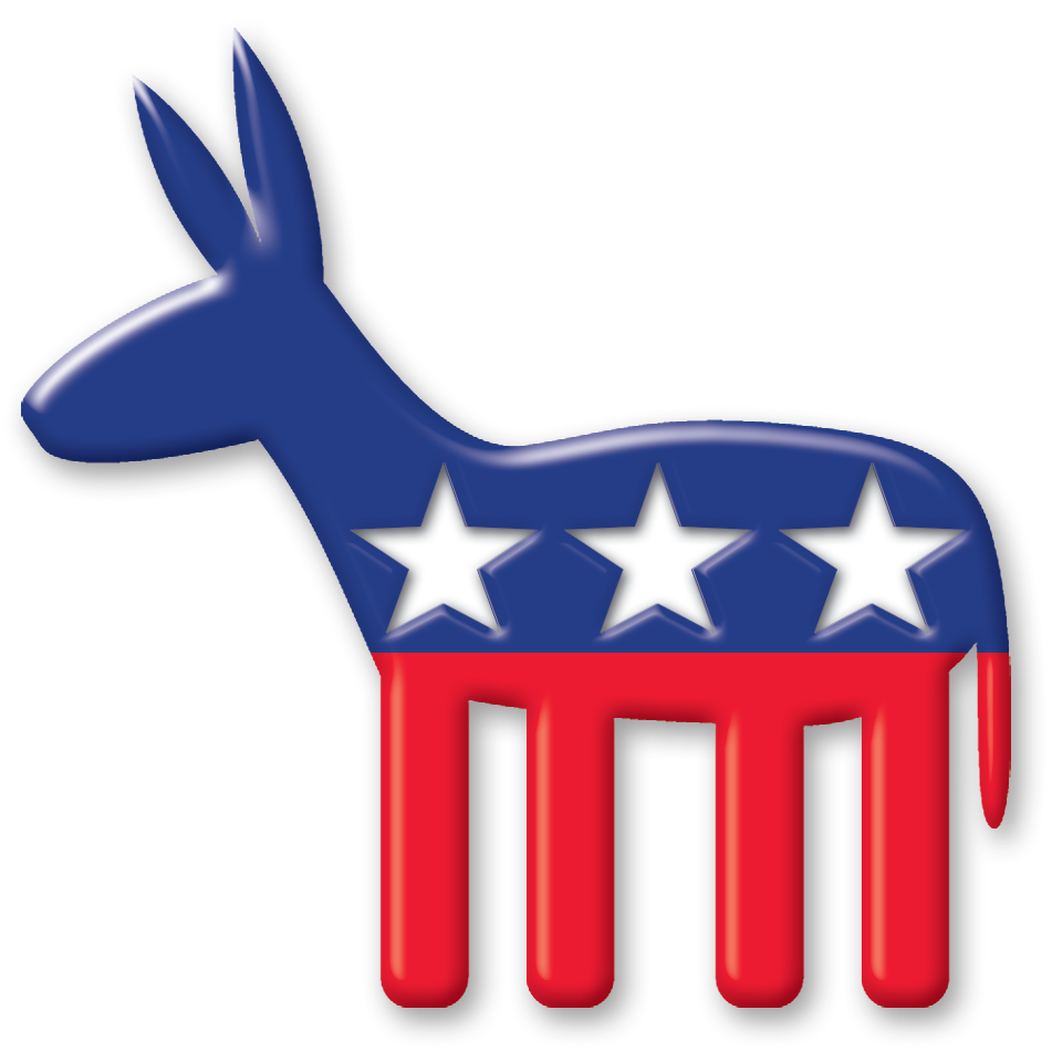 A wholly self created red, white & blue donkey